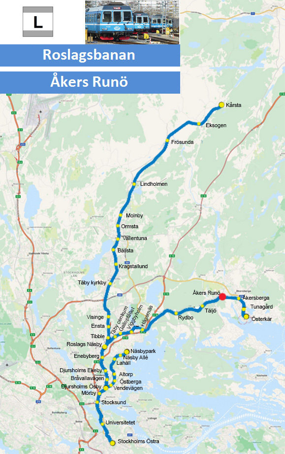 Map of Roslagsbanan station Åkers Runö